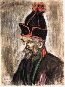 Daniel Mortenson (1860-1924) of Røros/Engerdal painted by Astri Aasen (1875-1935) during the first Sami congress in Trondheim 1917